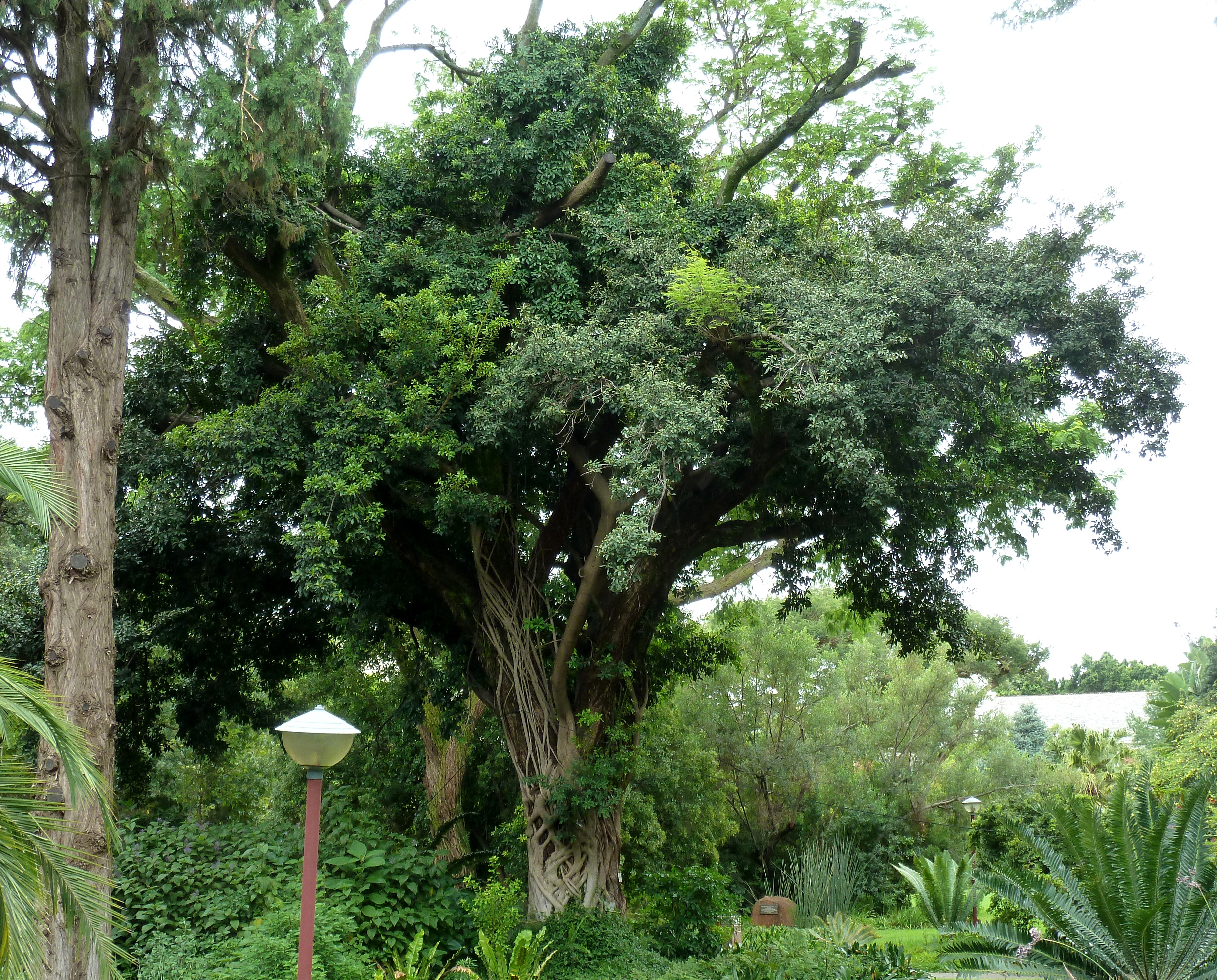 Strangler fig enveloping Acacia galpinii in the Manie van der Schijff Botanical Garden at the University of Pretoria, South Africa